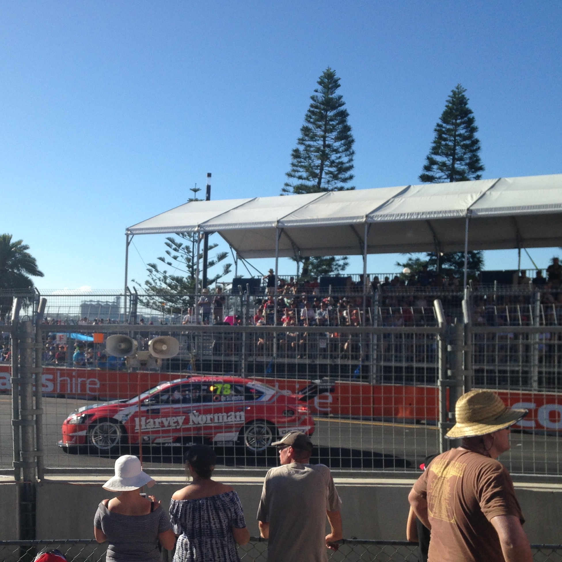 Simona de Silvestro competing for Nissan Motorsport in the 2017 Newcastle 500